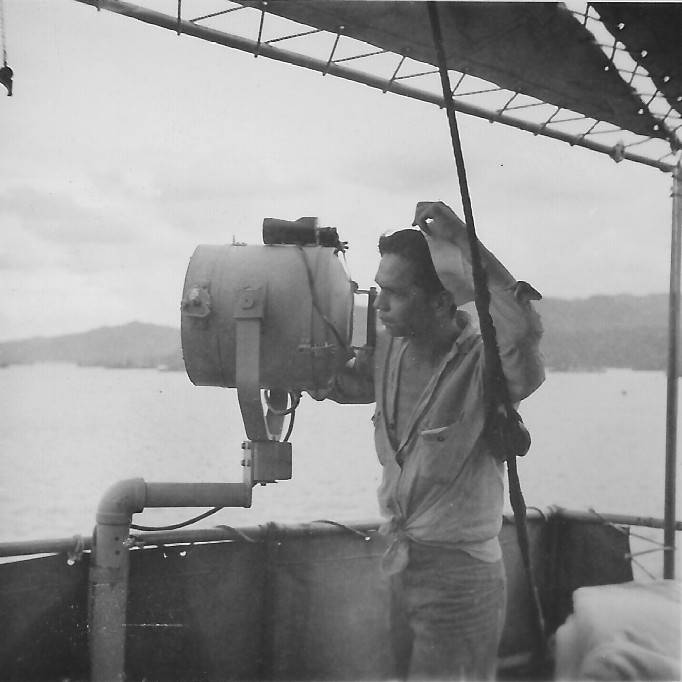 Signalman on watch at Morse signal lamp aboard USS Blue Ridge (AGC-2)